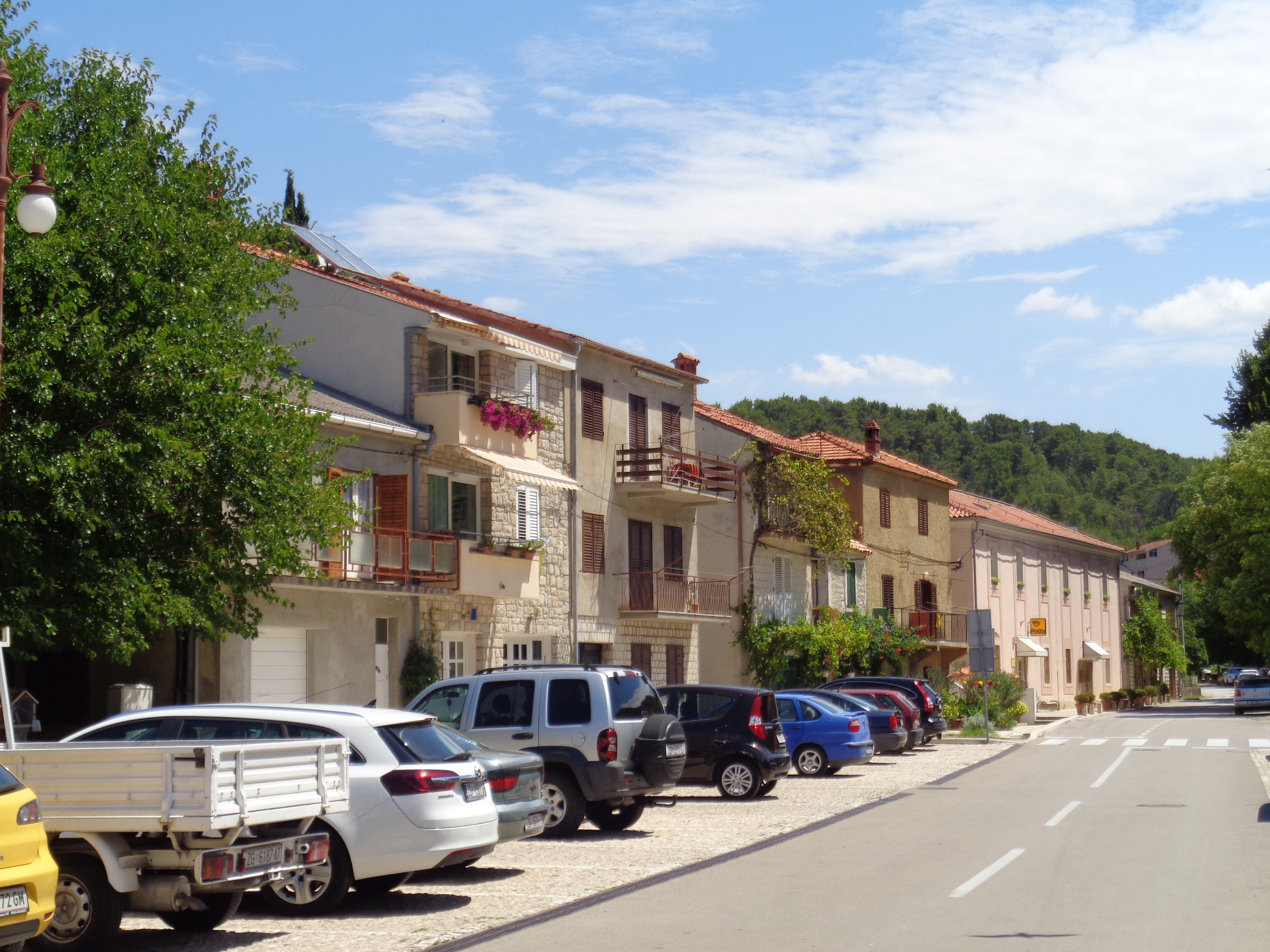 Novigrad (=New Town), Zadar County, Dalmatia Region, Republic of Croatia - buildings in the main street